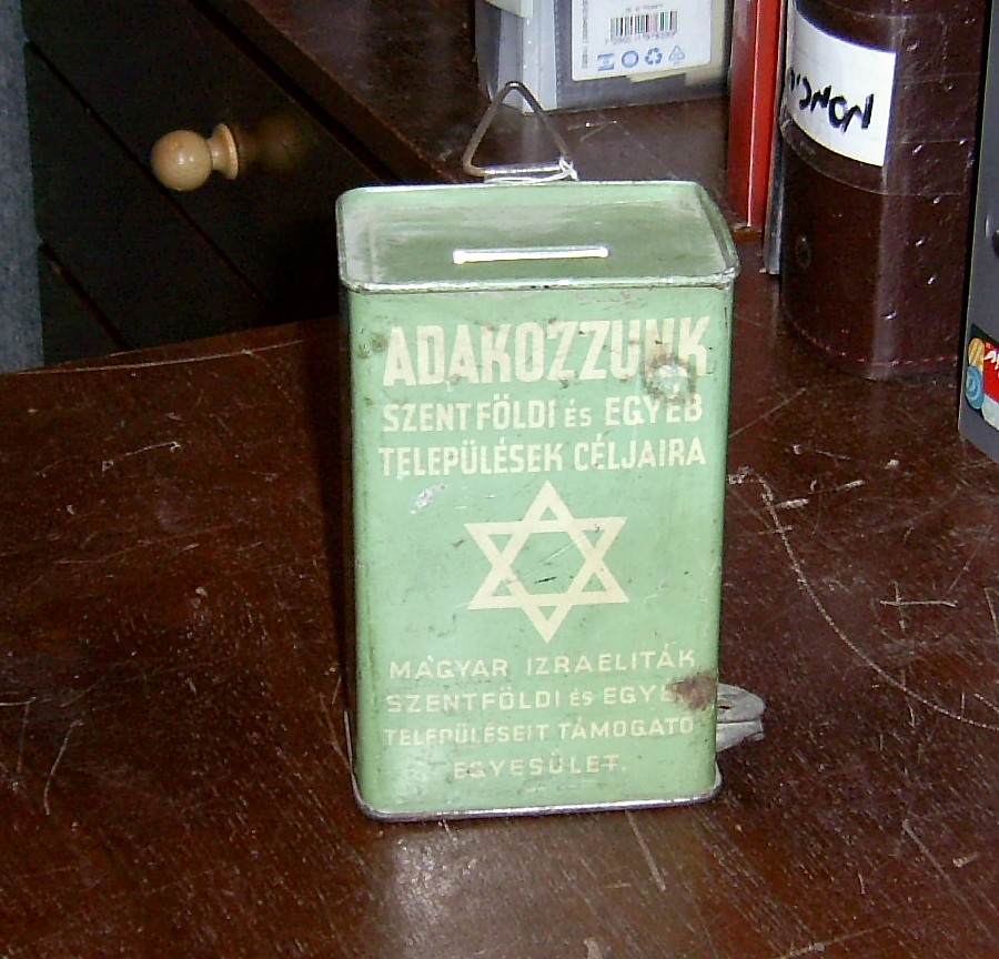 Star of David From Trionfo Judaica Store 97226232368 Dorot Rishonim St 9 Jerusalem Jerusalem